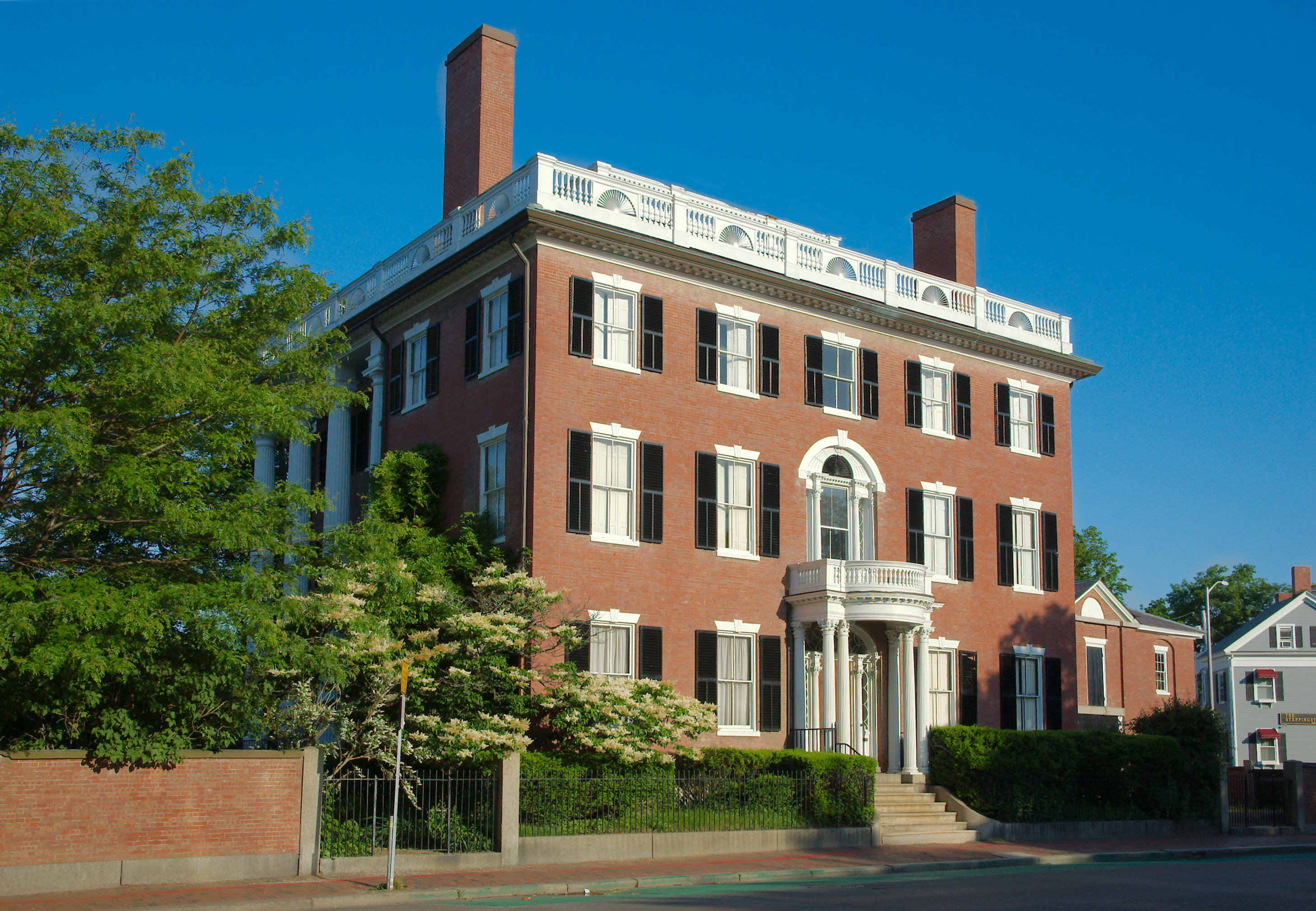 The Andrew Safford house off Salem Common, Salem, Massachusetts. Built in 1819 the Federal style by an unknown architect. It is now owned by the Peabody Essex Museum.